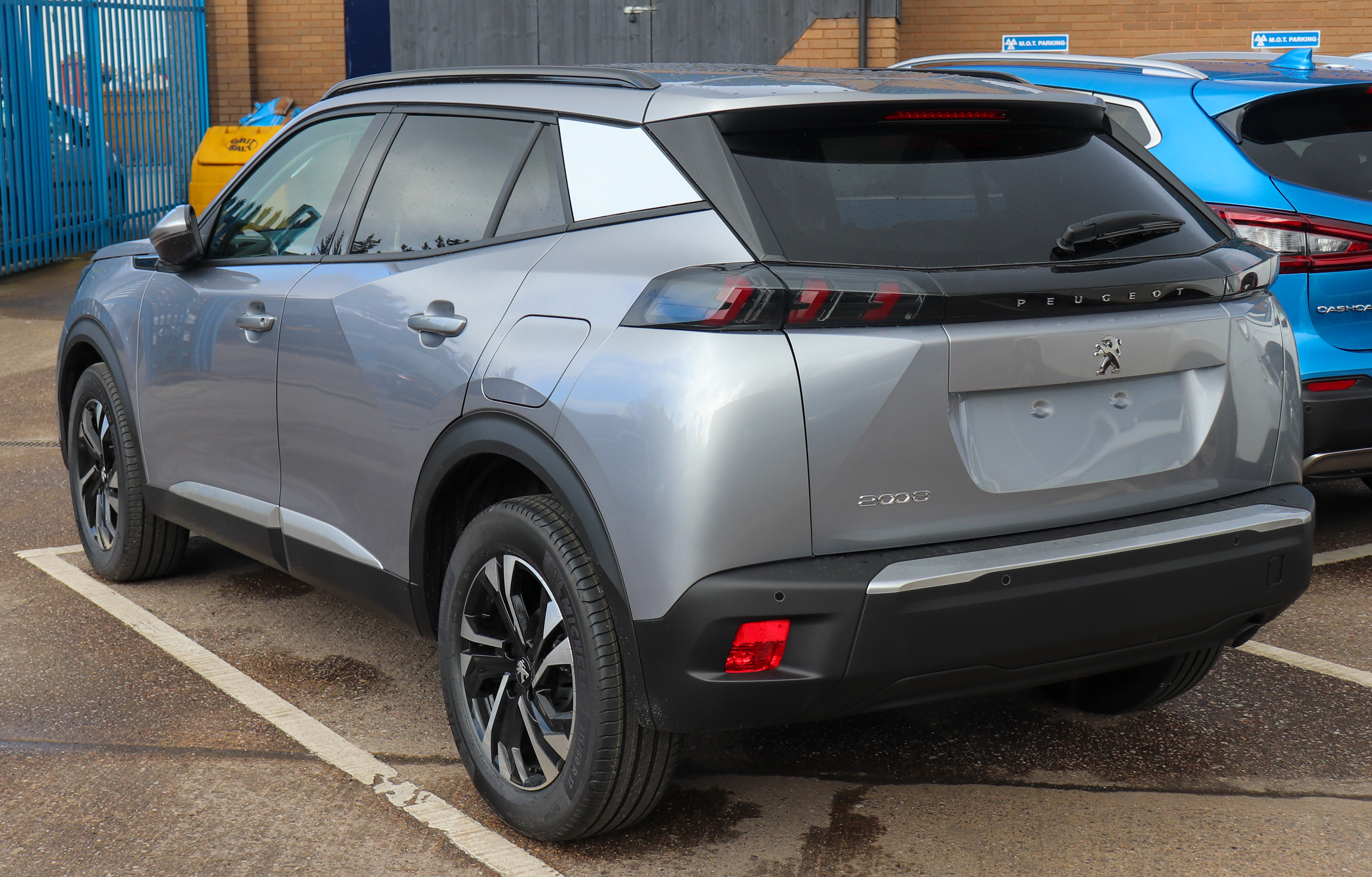 2020 Peugeot 2008 Allure Rear Taken in Leamington Spa